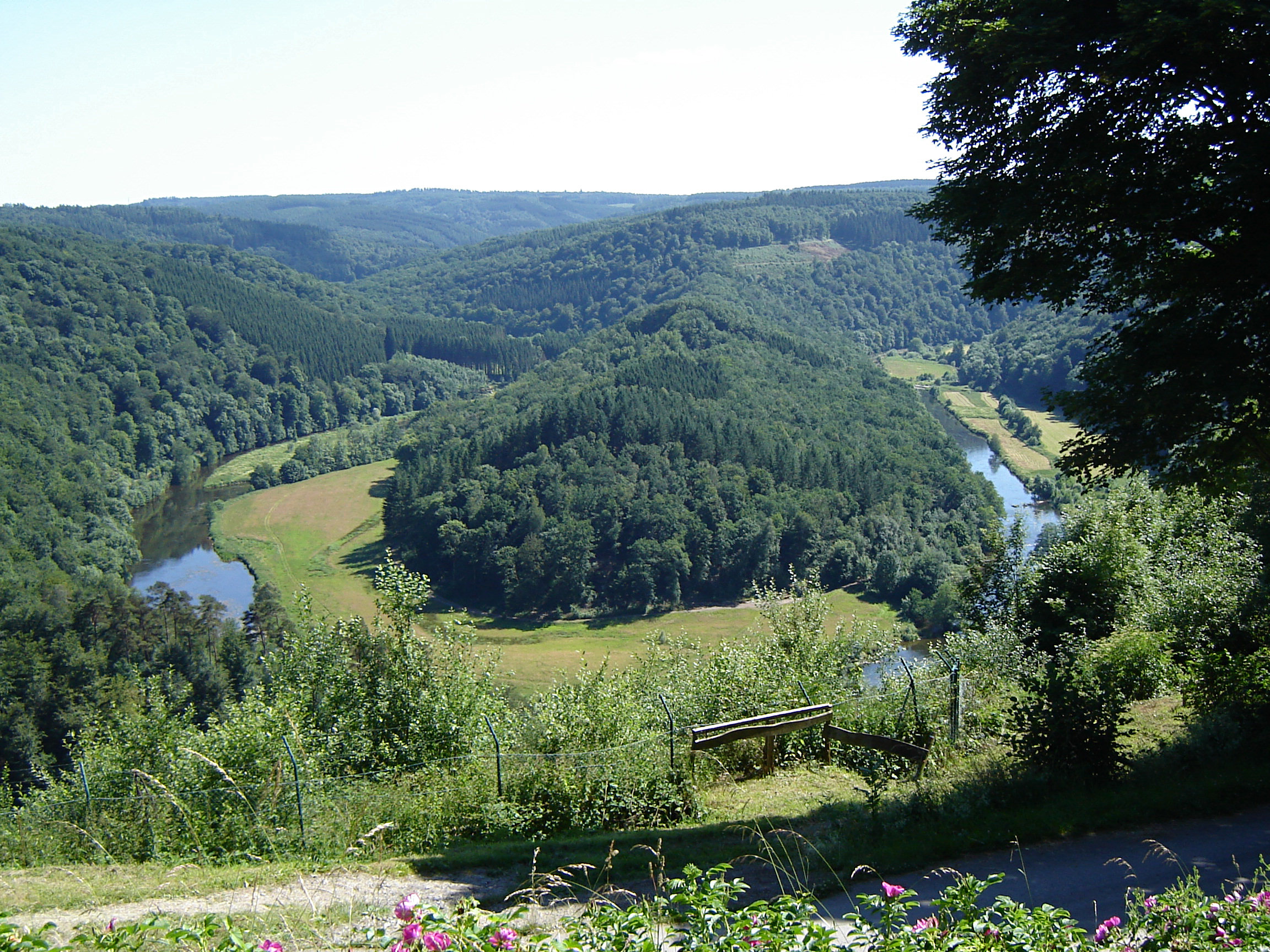 "Le Tombeau du Géant" (the giant's tomb), in Botassart, Ucimont. Ucimont, Bouillon, Luxembourg, Belgium